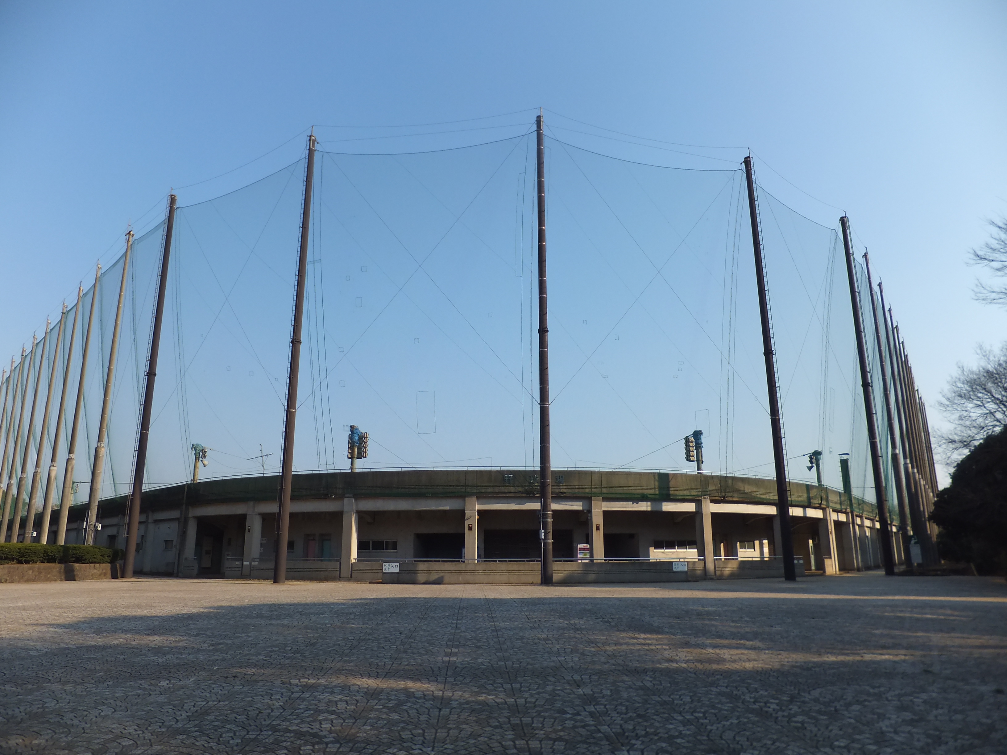 Chiba prefectural Aoba no mori Baseball Studium at Chiba, Chiba, Japan.